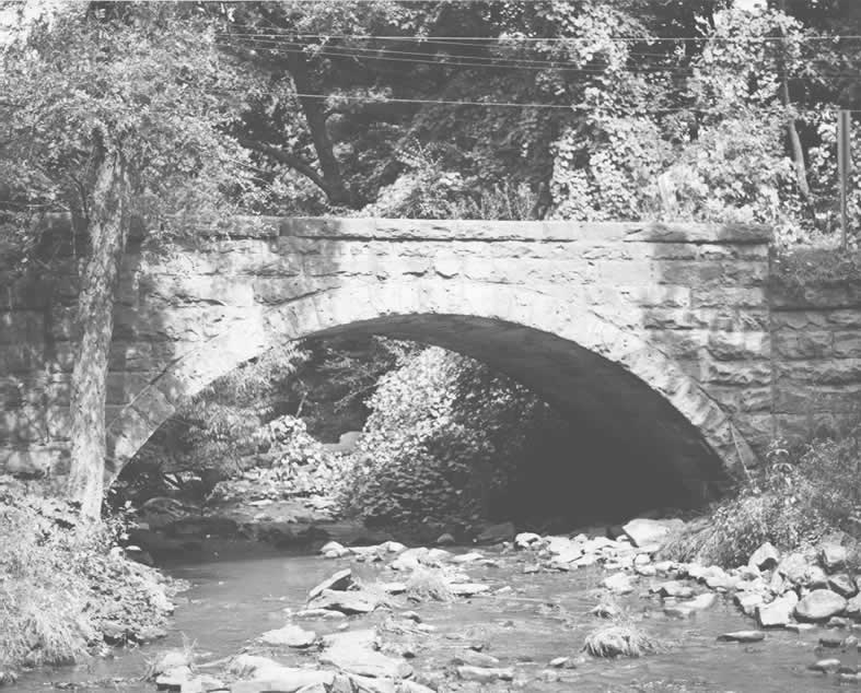 Side of the Bridge in Jenner Township, which carries Legislative Route 55125 over Roaring Run near Pilltown in Jenner Township, Somerset County, Pennsylvania, United States. Built in 1908, the bridge is listed on the National Register of Historic Places.